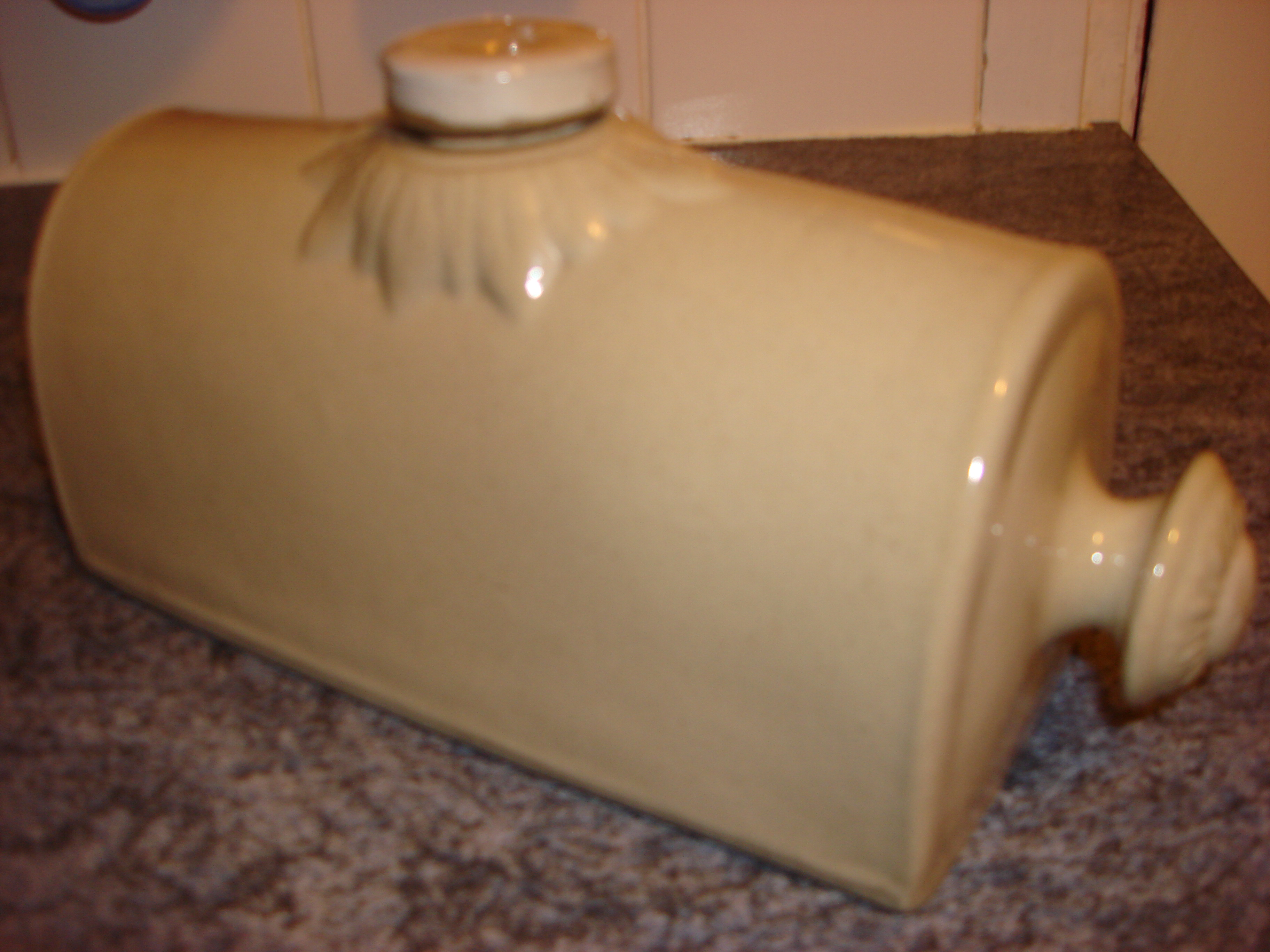 old ceramic hot water bottle